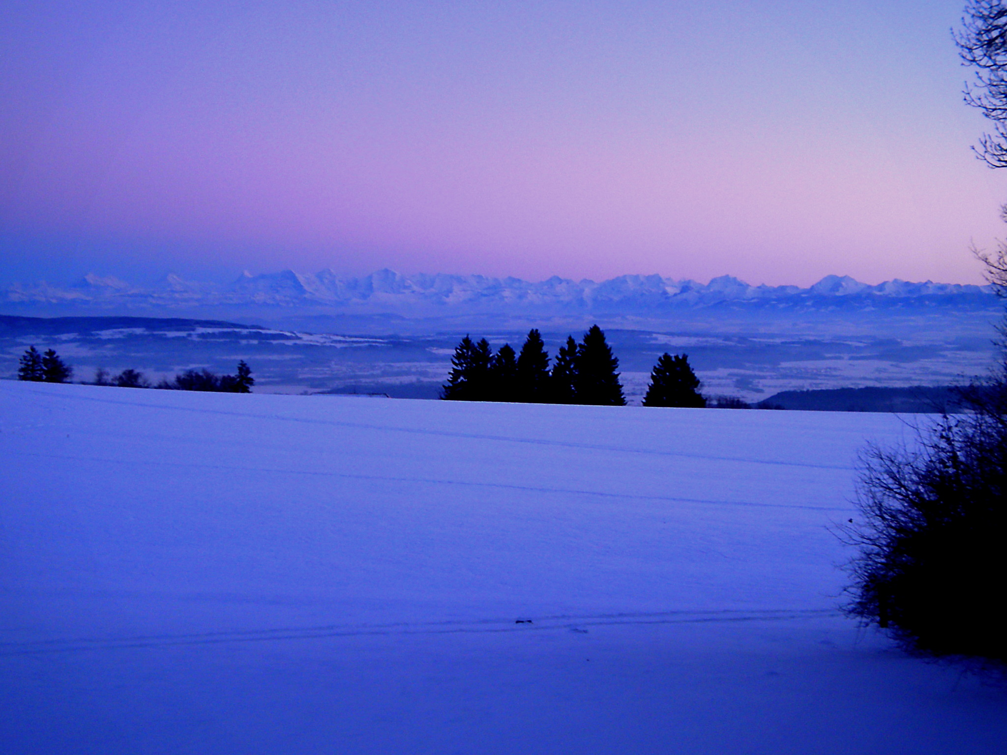 Bernese Alps in the evening seen from the Jura (Prêles above Lake of Biel/Bienne, Kanton Bern).